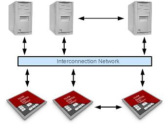 Diagram of Embedded Supercomputing.